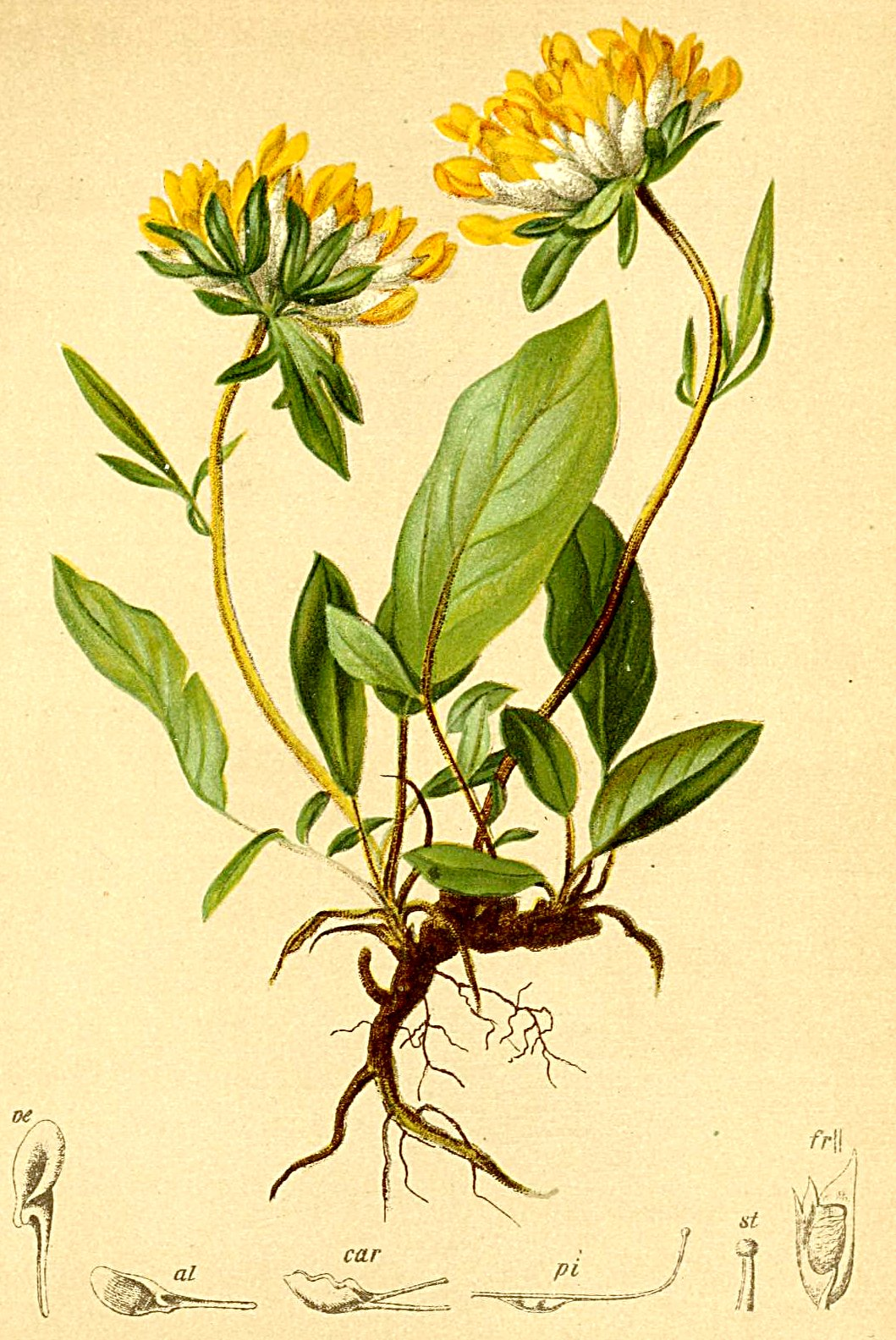 Anthyllis alpestris